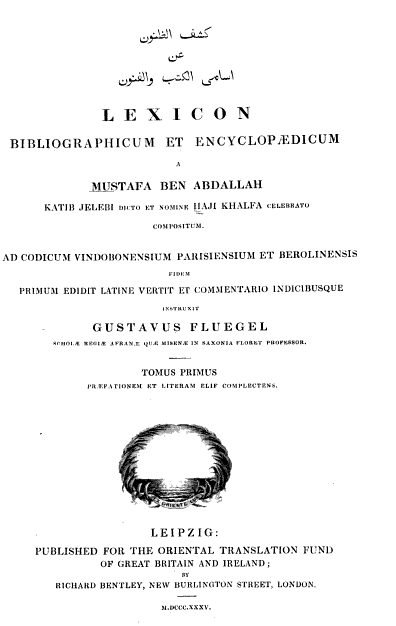 Title page of Kashf al-ẓunūn ʻan asāmī al-kutub wa-al-funūn (Lexicon bibliographicum et encyclopaedicum) - London 1835